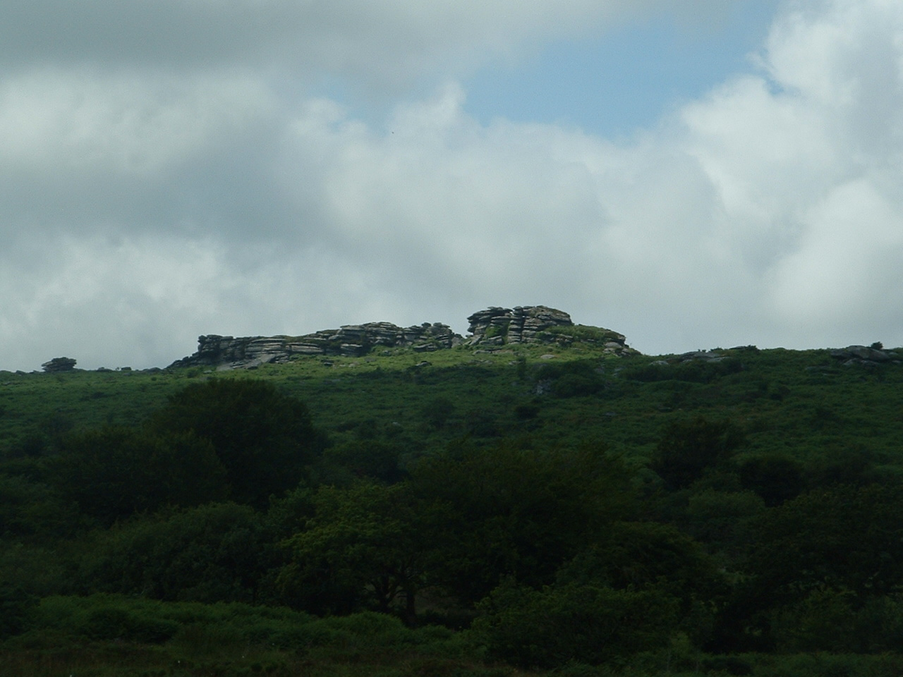 Hawk's Tor, on Bodmin Moor, Cornwall. Taken by Necrothesp, 8 July 2005.